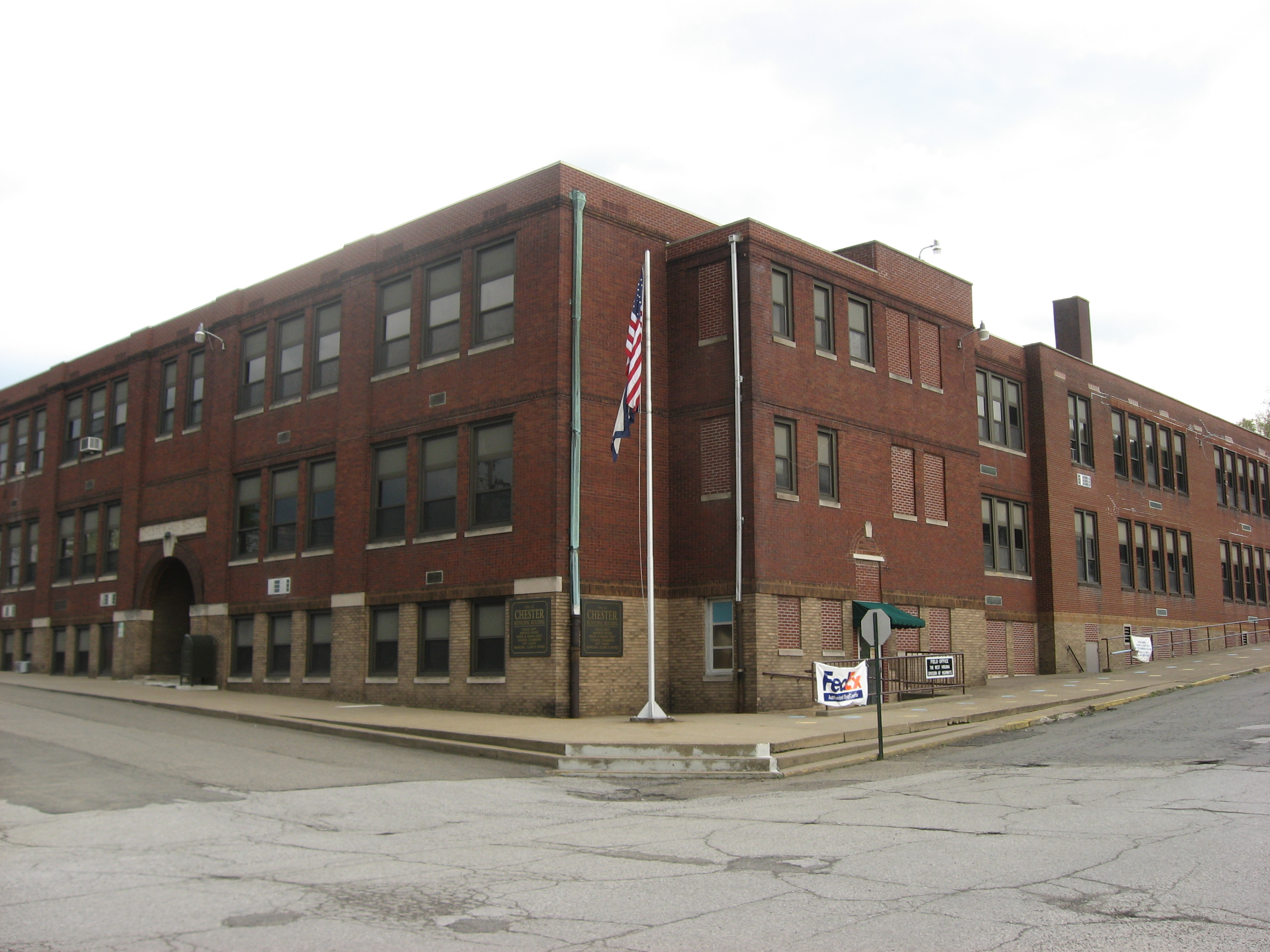 Municipal building in Chester, West Virginia, United States, located at 600 Indiana Avenue.